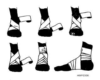 Diagram showing how to apply a figure-eight bandage to the ankle.